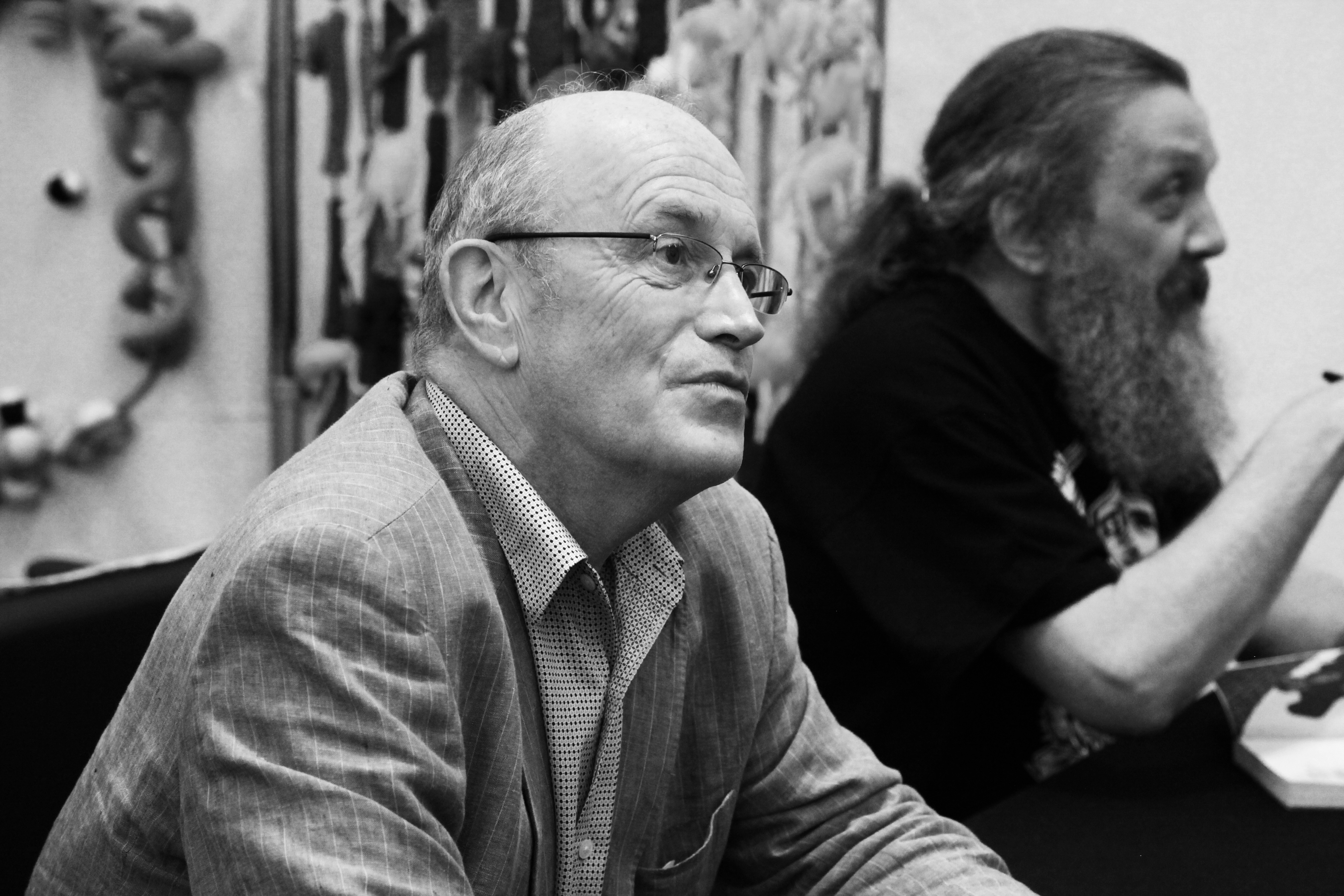 Iain Sinclair at Cheltenham Science Festival, 2011. Presumably Alan Moore in the background.